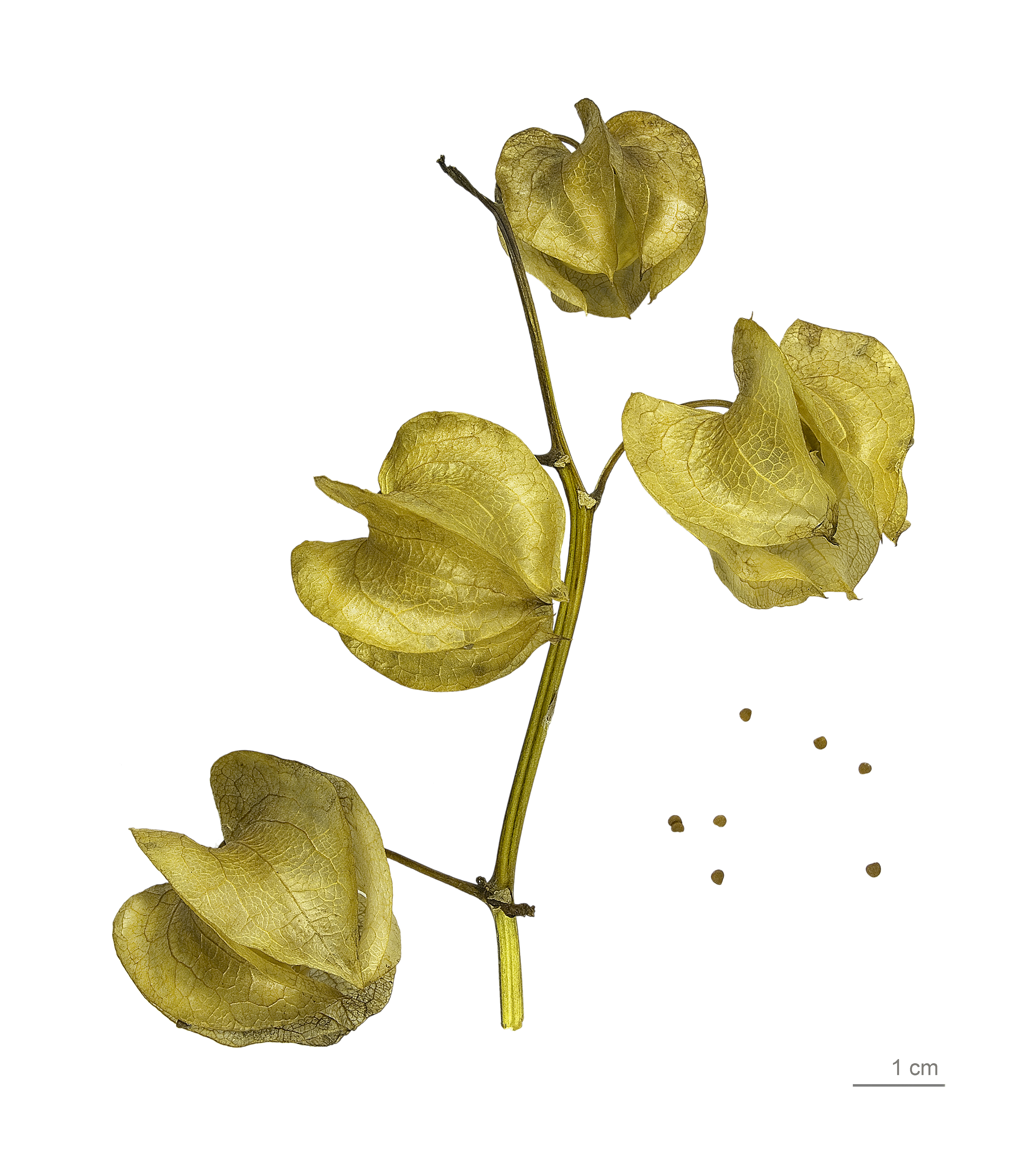 Apple of Peru and shoo-fly plant , fruits and seeds